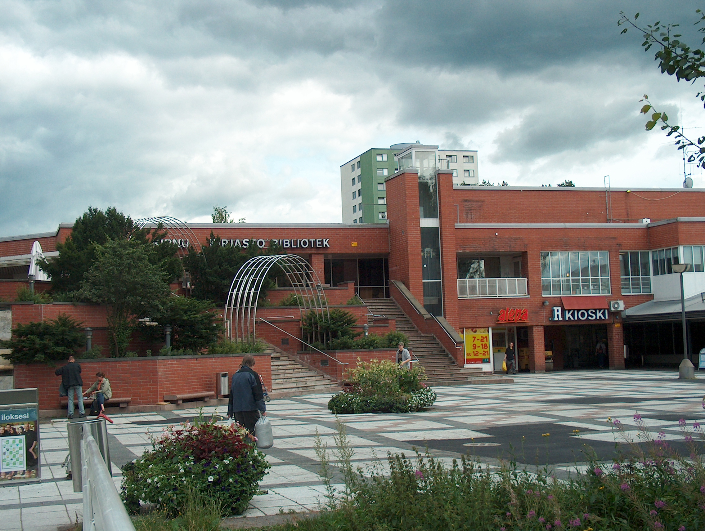 Library in Havukoski district, Koivukylä major district, Vantaa